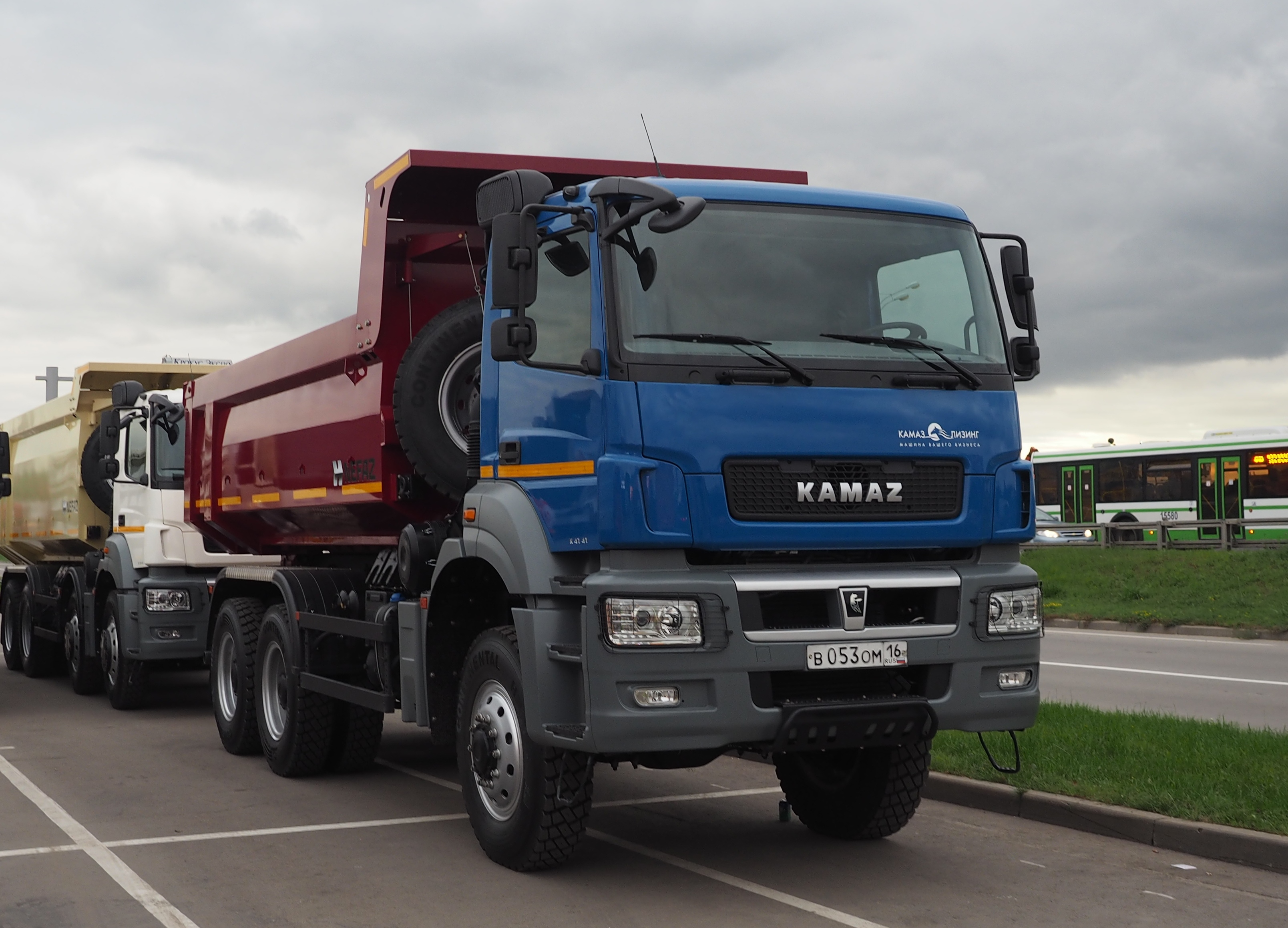 KAMAZ-65802. Comtrans-2015